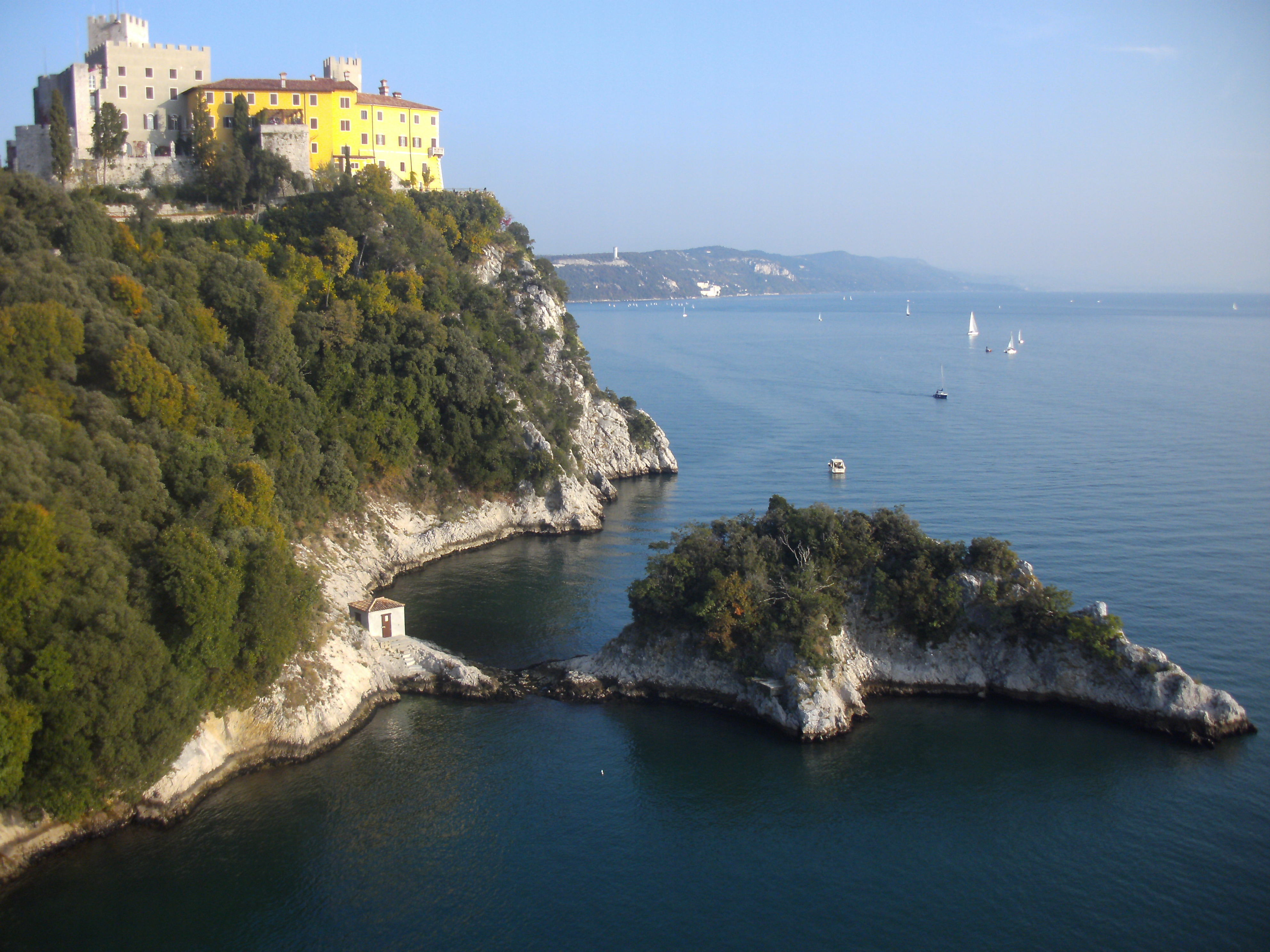 The Castle of Duino from Castelvecchio. There are always a lot of ships and seagulls.